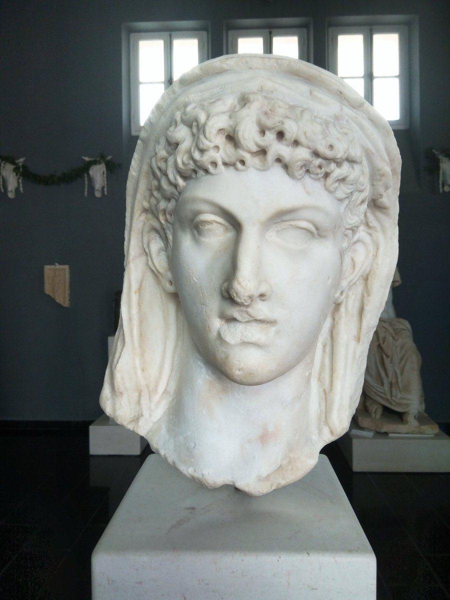 An ancient Roman bust of Cleopatra VII of Ptolemaic Egypt from Archeological Museum of Cherchell, Algeria.